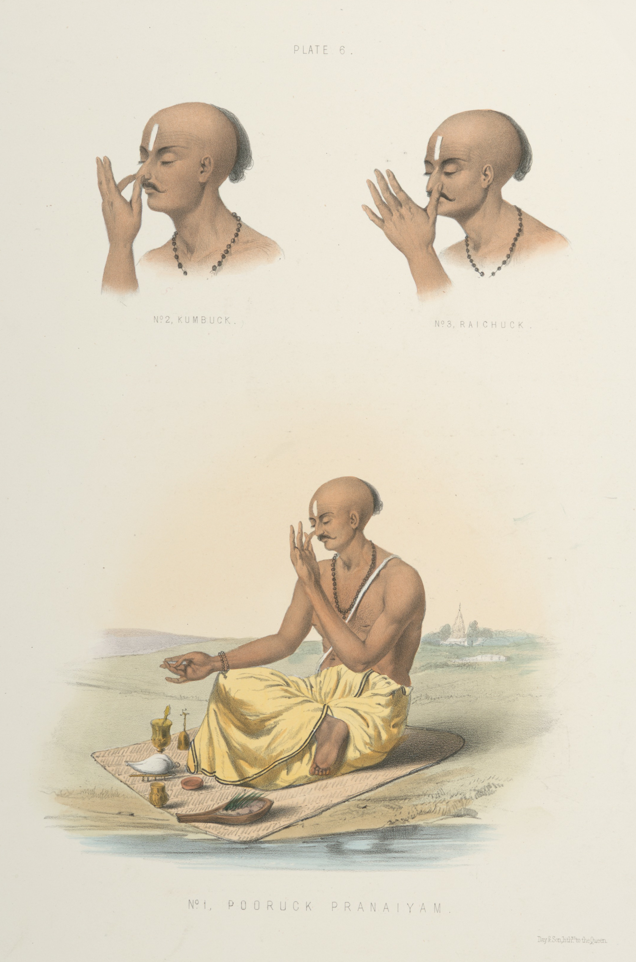 Image Title: 1. Pooruck Pranaiyam [Puraka pranayama]. 2. Kumbuck [Kumbhaka]. 3. Raichuck [Recaka]. Creator: Day & Son -- Lithographer Additional Name(s): Belnos, Sophie Charlotte, Mrs. -- Artist Medium: Lithographs -- Color Item Physical Description: Three images on one plate. Item/Page/Plate: Pl. 6 Notes: "breath-control" or Prânayâma. Source: The Sundhya or the Daily Prayers of the Brahmins. Illustrated in a series of original drawings from nature, demonstrating their attitudes and different signs and figures performed by them during the Ceremonies of their Morning Devotions, Poojas, etc. Source Description: 3 v. : [24] leaves of col. plates. ; 58 x 75 cm. Location: Stephen A. Schwarzman Building / Asian and Middle Eastern Division Catalog Call Number: *OLV+++ (Belnos, S. C. Sundhya ) Digital ID: 481291 Record ID: 103576 Digital Item Published: 2-3-2004; updated 3-25-2011 Browse More Sources, libraries, guides, online catalog The Sundhya or the Daily Prayers of the Brahmins. Illustrated in a series of original drawings from nature, demonstrati... Asian and Middle Eastern Collections Collection Guide Library Catalog Record Link Permalink (click to copy): Embed this image (click code)